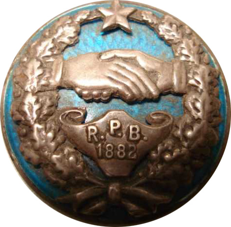 Masonic symbol of Germany.